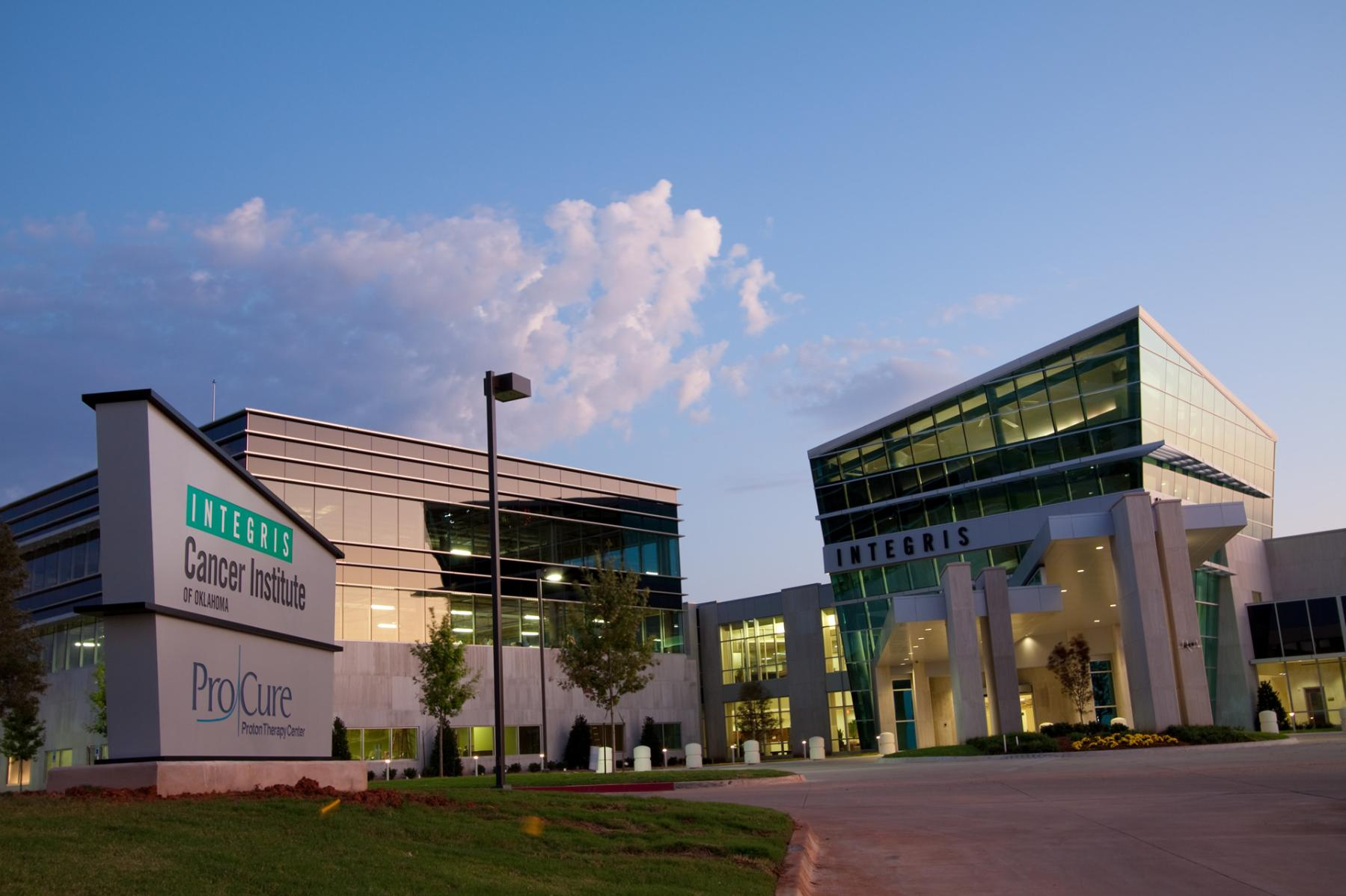 ICIO, INTEGRIS Cancer Institute of Oklahoma